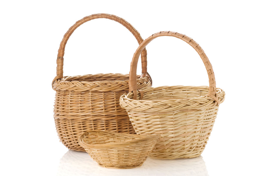 Canastas hechas en Santa Apolonia Teacalco.